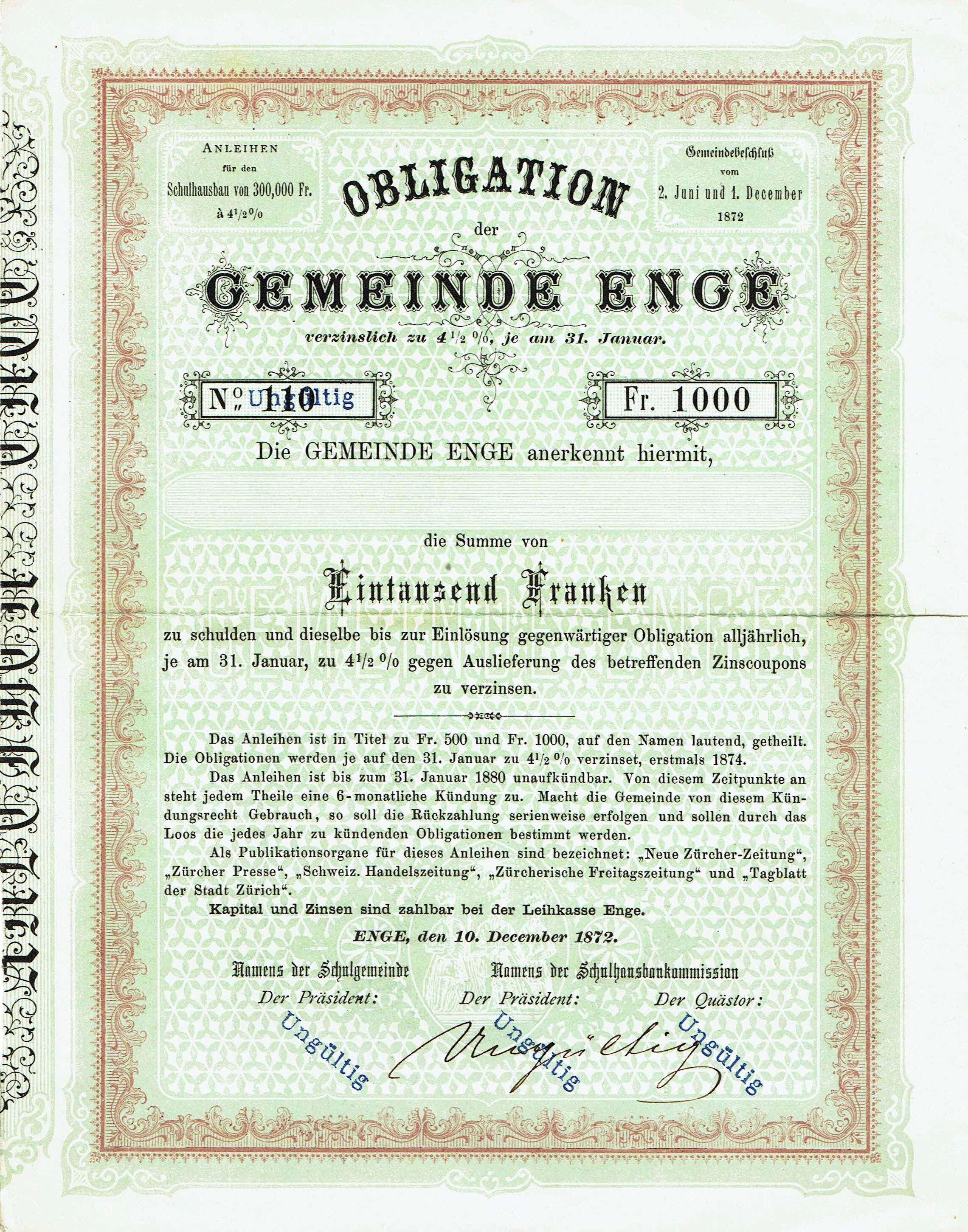 Bond of the Gemeinde Enge, issued 10. December 1872